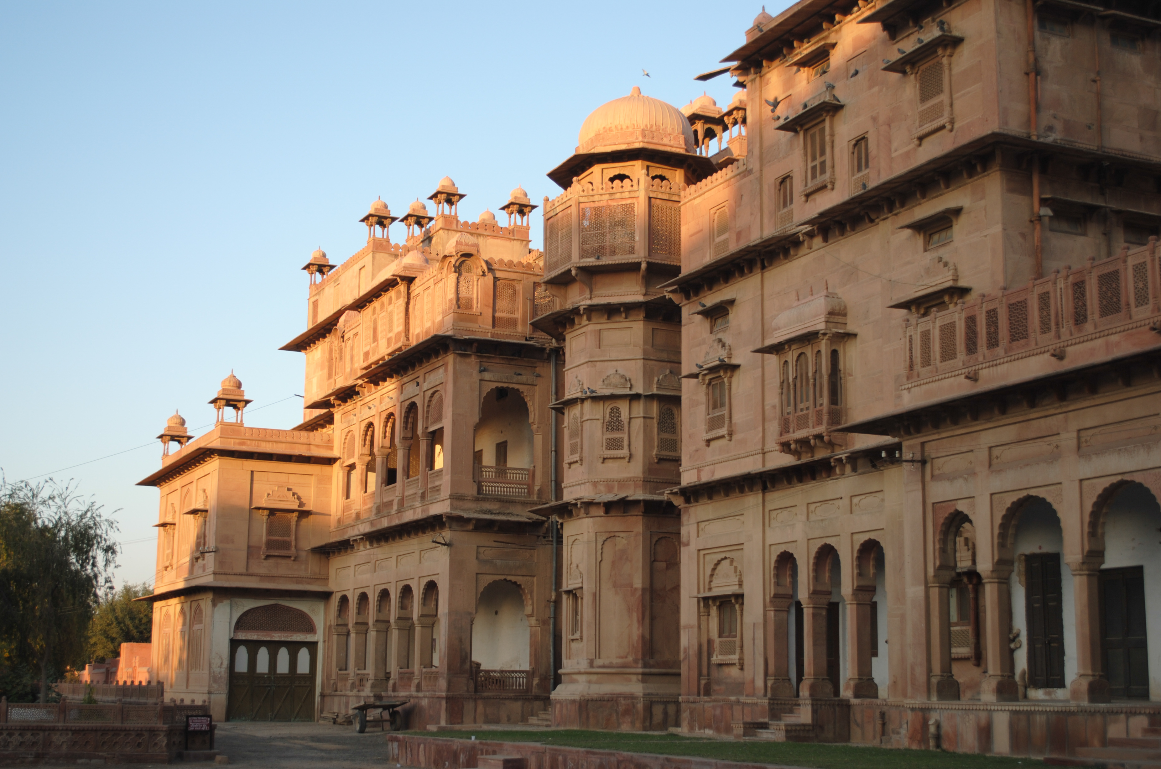 Bikaner fort outside view from courtyard